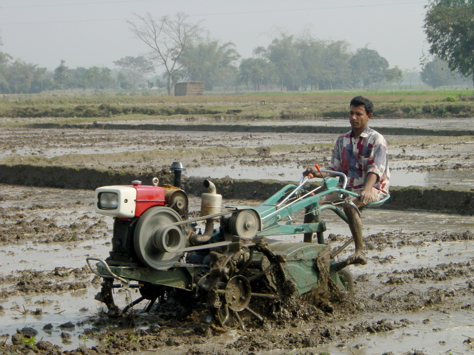 2WT puddling (plowing) soil for rice tranplanting in Dinajpur District, Bangladesh